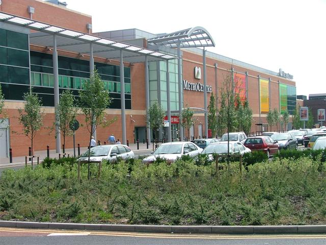 Metro Centre. Red Entrance